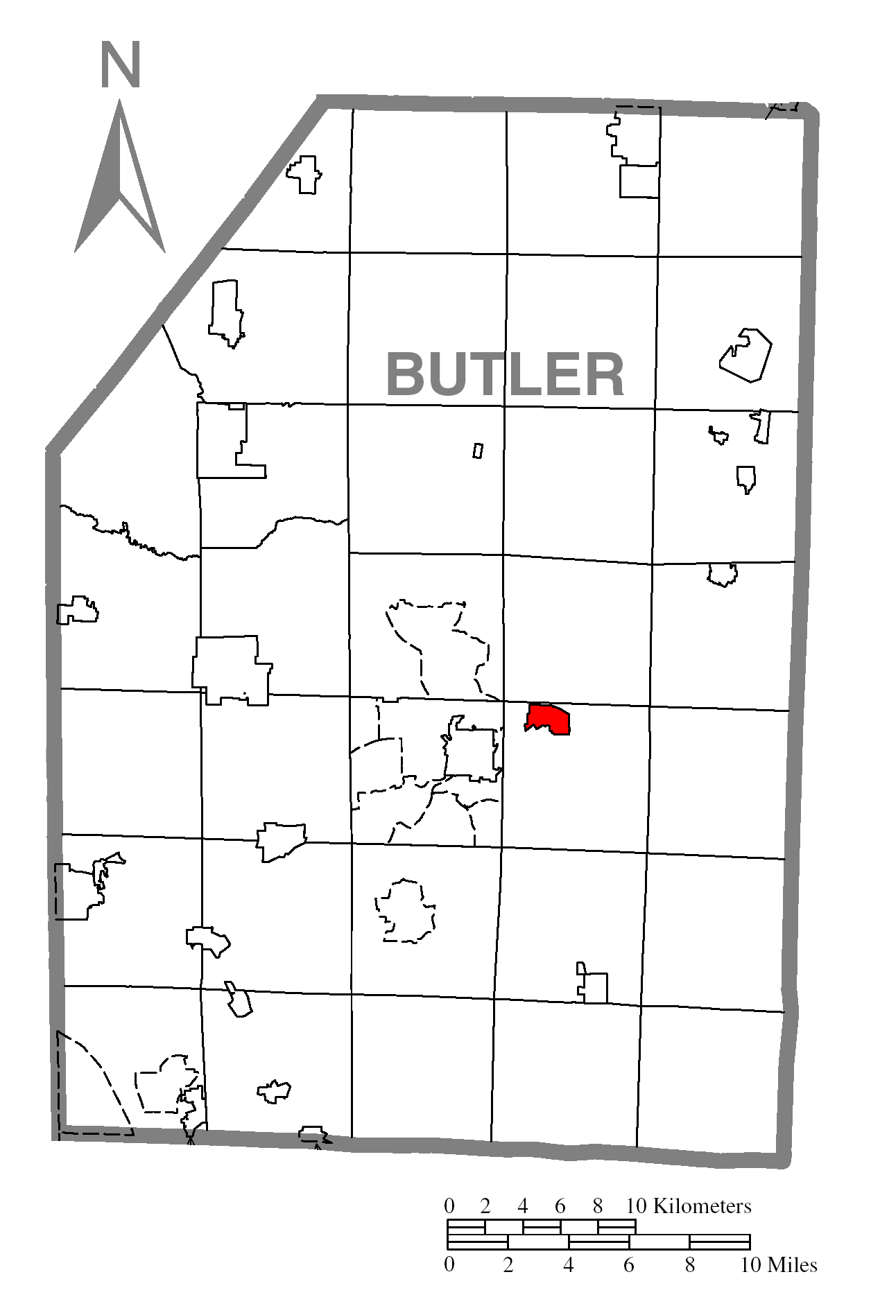 A map of Butler County showing East Butler, Pennsylvania (alternate) highlighted on the map.